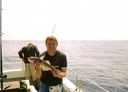 Peter van der Sluijs caught large haddock with a fishing rod in Ireland